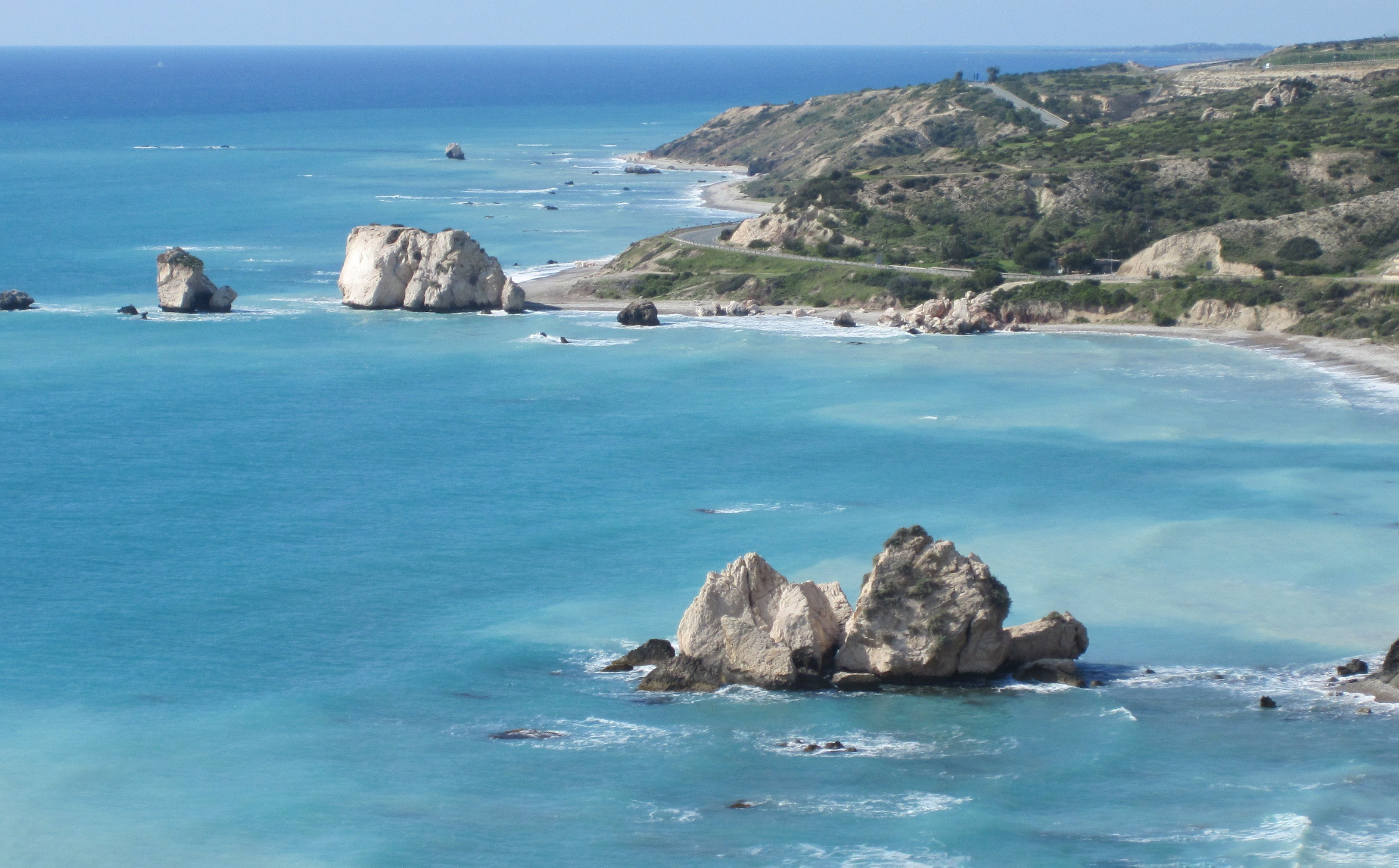 I took this photo on the way to Paphos. Πέτρα του Ρωμιού & Πέτρα του Σαρακηνού.